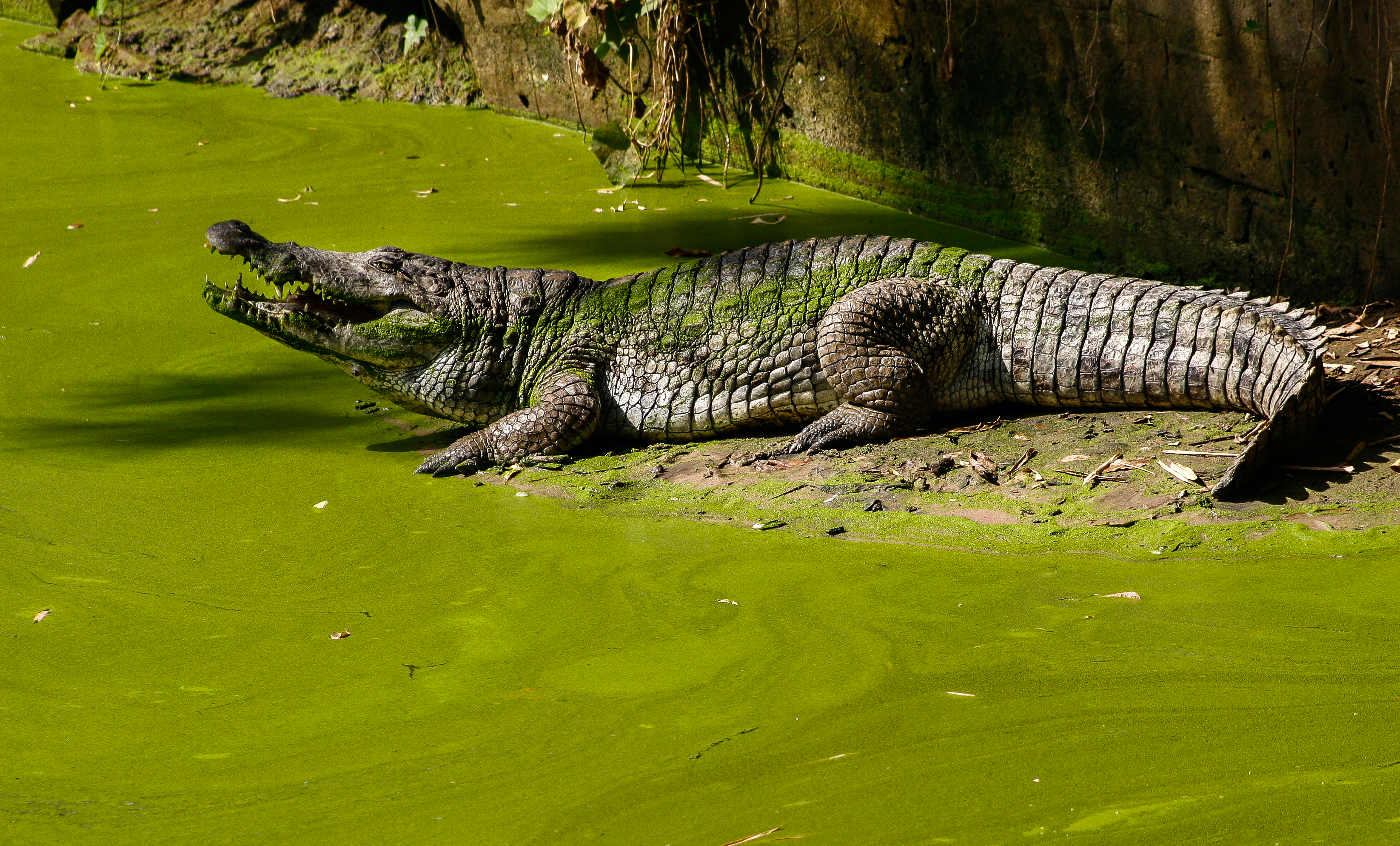 untitled (3 of 1)